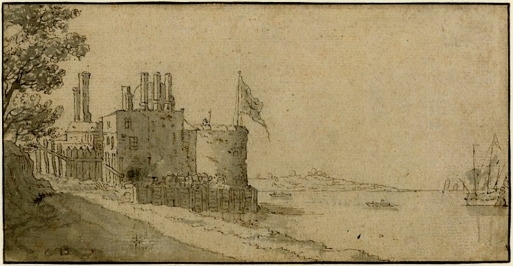 The Blockhouse in Gravesend by Cornelis Bol. The British Museum, #1859,1210.919